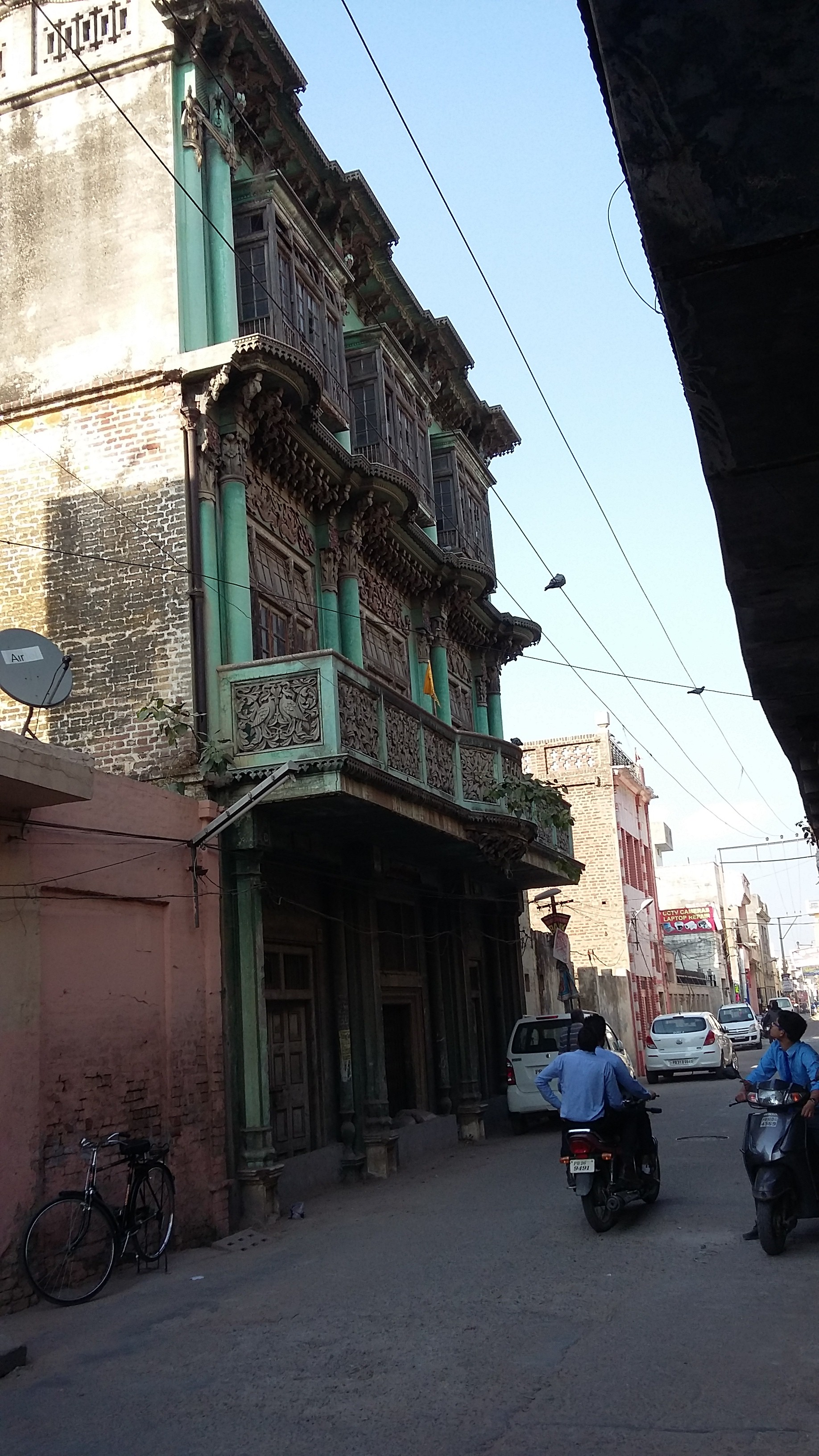 new abadi khana